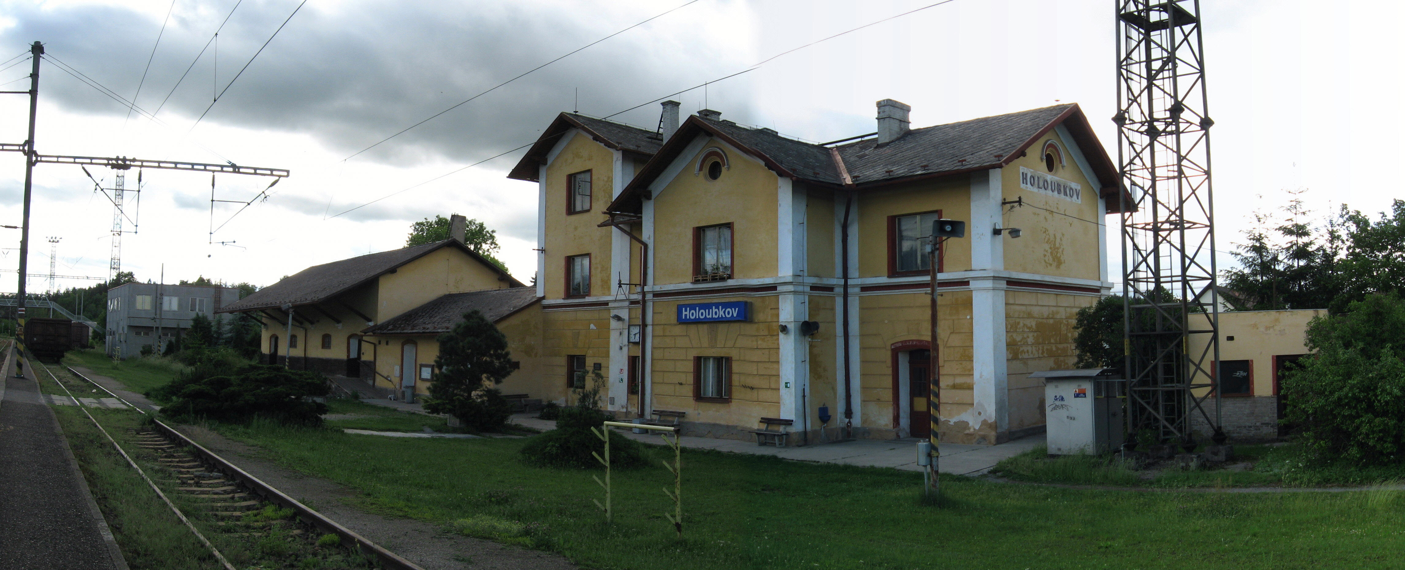 Train station at Holoubkov, Pilsener province, CZ. Railway track no. 170